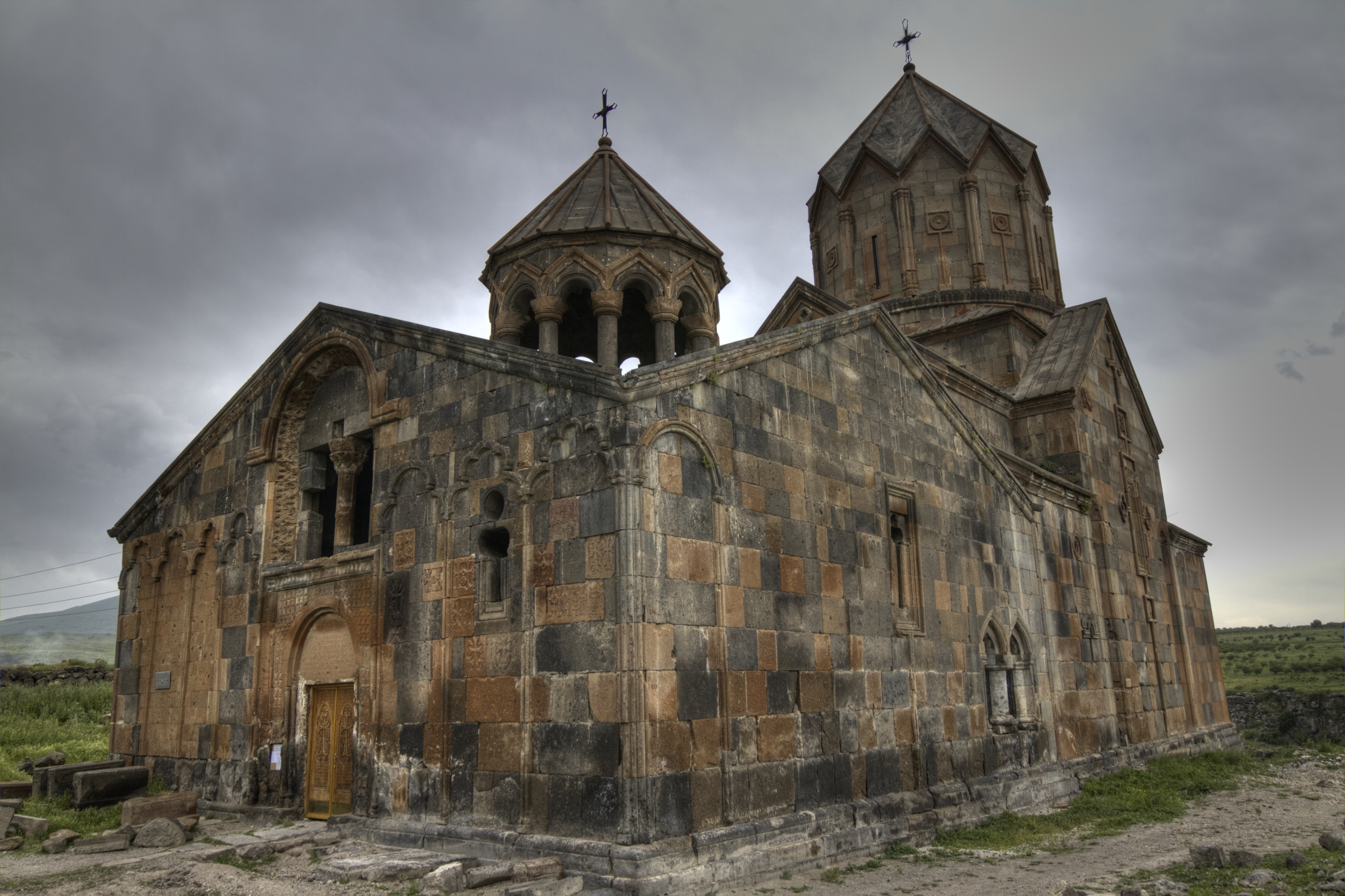 Site view of the 13th century Armenian monastery of Hovhannavank in Armenia.